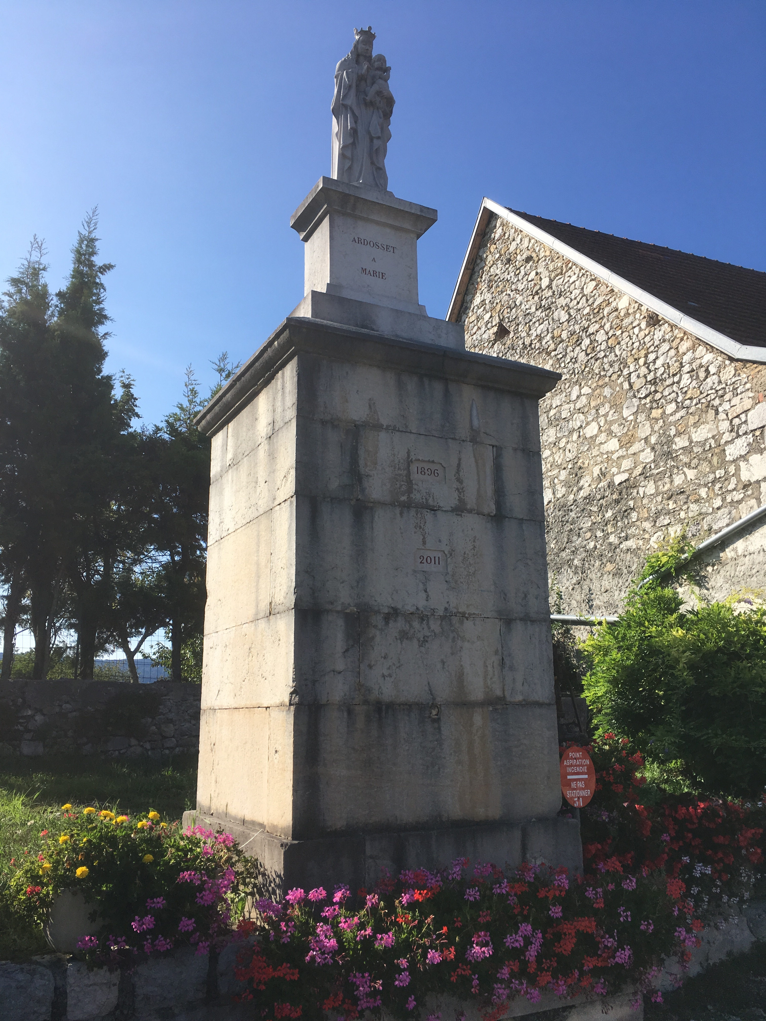 The Virgin of Ardosset. Commune of Ceyzérieu. Ain Department, France. August 2017